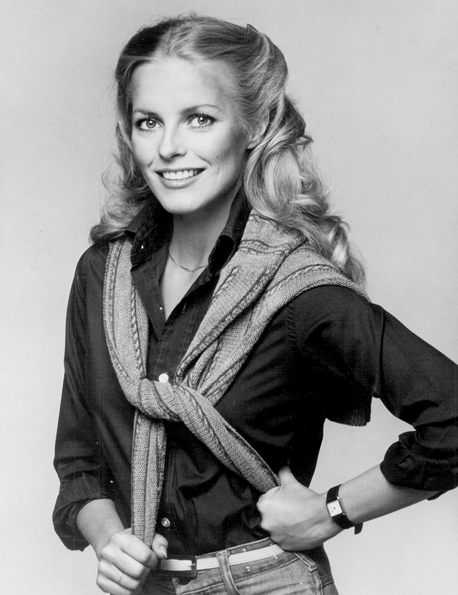 Photo of Cheryl Ladd from the television program Charlie's Angels.